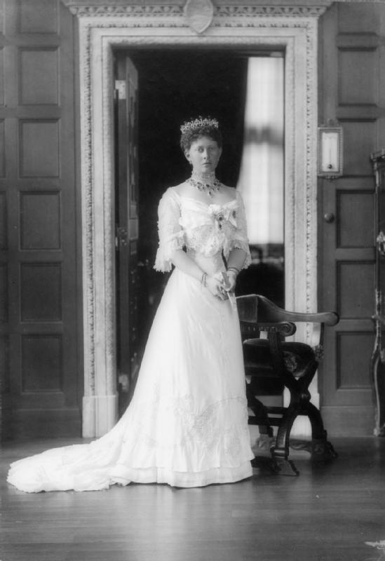 Germany Before the First World War 1890 - 1914 Portrait of Kaiser Wilhelm II's sister, Margarethe, Countess of Hesse, 1902. The Countess is wearing court dress with tiara and fan and is framed by a doorway.